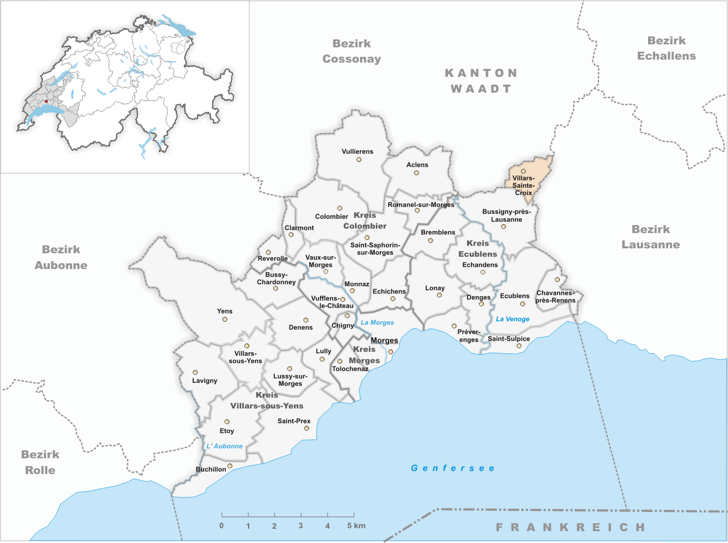 Municipality Villars-Sainte-Croix